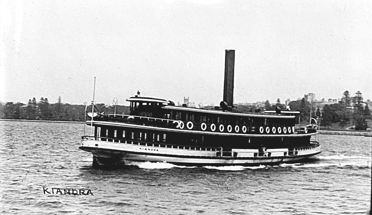 Sydney Ferry Kiandra (built 1911, decommissioned 1951) in her original pre-1932 livery This image forms part of the digitised photographs of the Ross and Pat Craig Collection. Ross Craig (1926-2012) was a local historian born in Stockton and dedicated much of his life promoting and conserving the history of Stockton, NSW. He possessed a wealth of knowledge about the suburb and was a founding member of the Stockton Historical Society and co-editor of its magazine. Pat Craig supported her husband’s passion for history, and together they made a great contribution to the Stockton and Newcastle communities. We thank the Craig Family and Stockton Historical Society who have kindly given Cultural Collections at the University of Newcastle, NSW, Australia, access to the collection and allowedus to publish the images. Thanks also to Vera Deacon for her liaison in attaining this important collection.Please contact Cultural Collections at the University of Newcastle, NSW, Australia, if you are the subject of the image, or know the subject of the image, and have cultural or other reservations about the image being displayed on this website and would like to discuss this with us.Some of the images were scanned from original photographs in the collection held at Cultural Collections, other images were already digitised with no provenance recorded.You are welcome to freely use the images for study and personal research purposes. Please acknowledge as“Courtesy of the Ross and Pat Craig Collection, University of Newcastle (Australia)" For commercial requests please consider making a donation to the Vera Deacon Regional History Fund.These images are provided free of charge to the global community thanks to the generosity of the Vera Deacon Regional History Fund. If you wish to donate to the Vera Deacon Fund please download a form here: you have any further information on the photographs, please leave a comment.